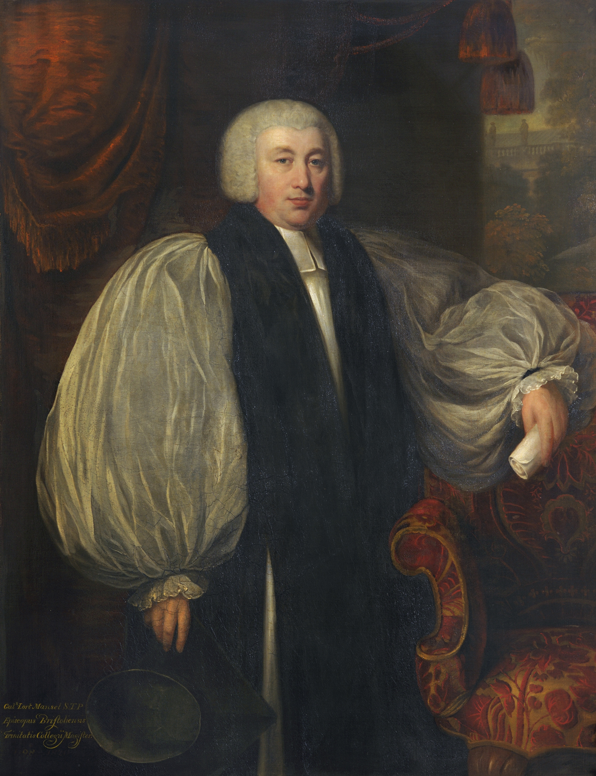 William Lort Mansel (1753-1820)